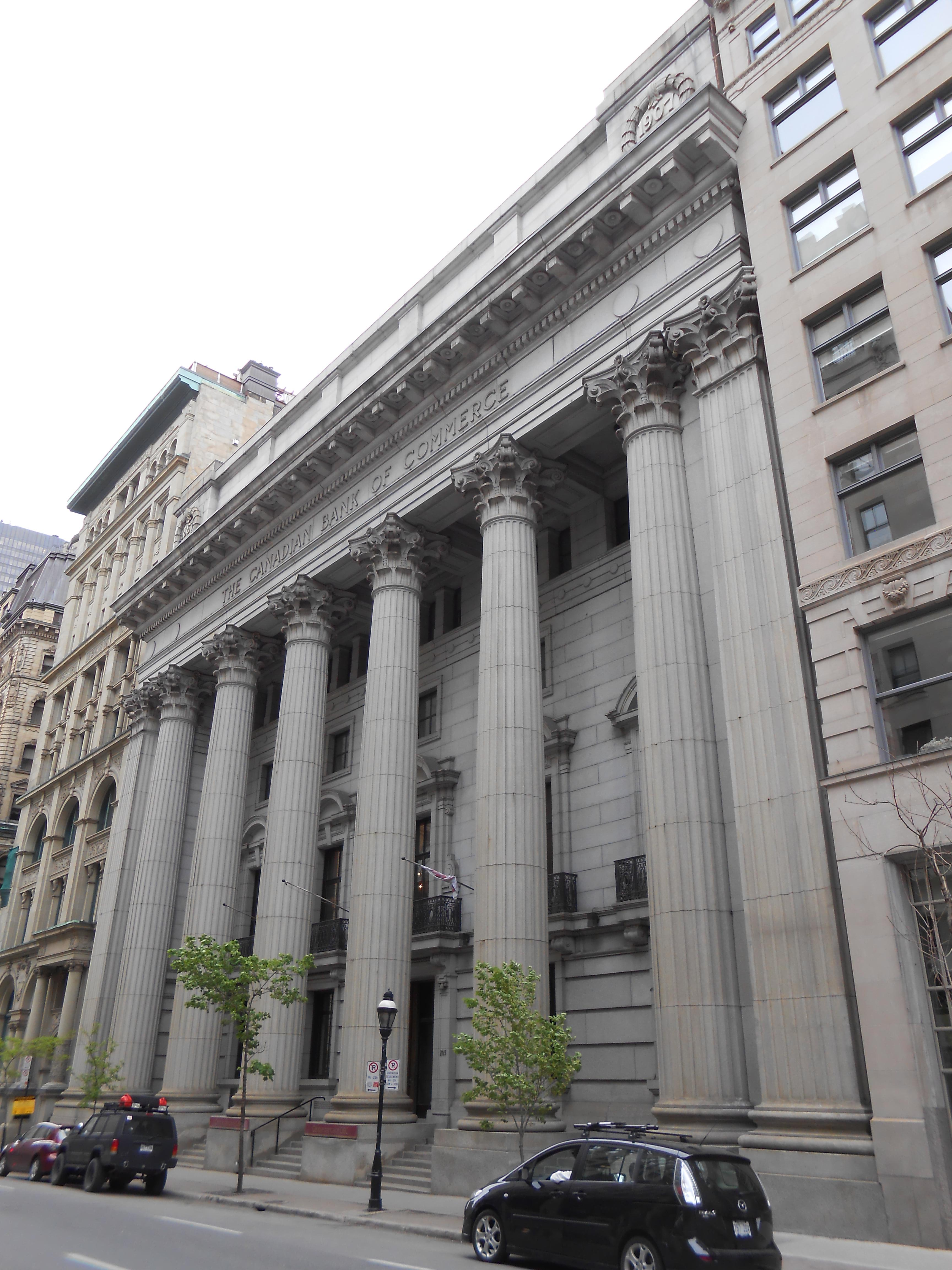 Canadian Imperial Bank of Commerce, 265 Saint-Jacques Street, Montréal, Quebec, Canada